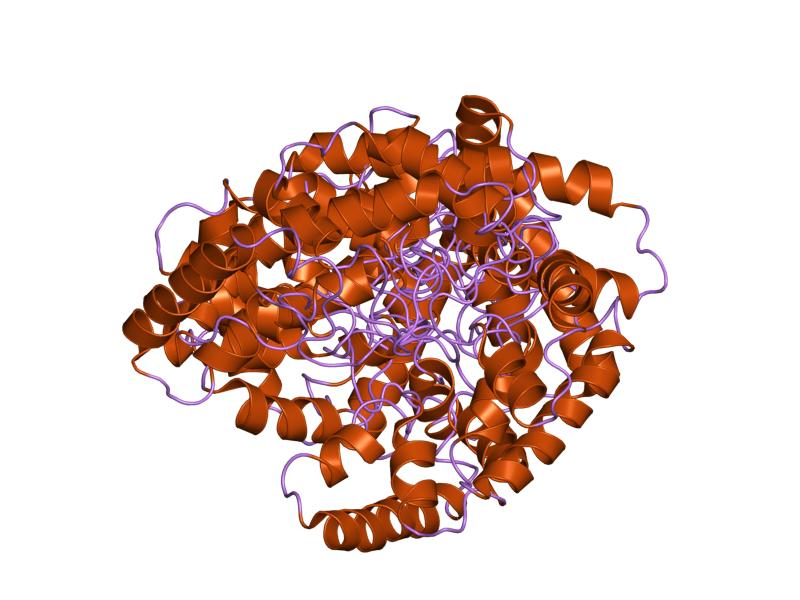 Cartoon representation of the molecular structure of protein registered with 1j0t code.